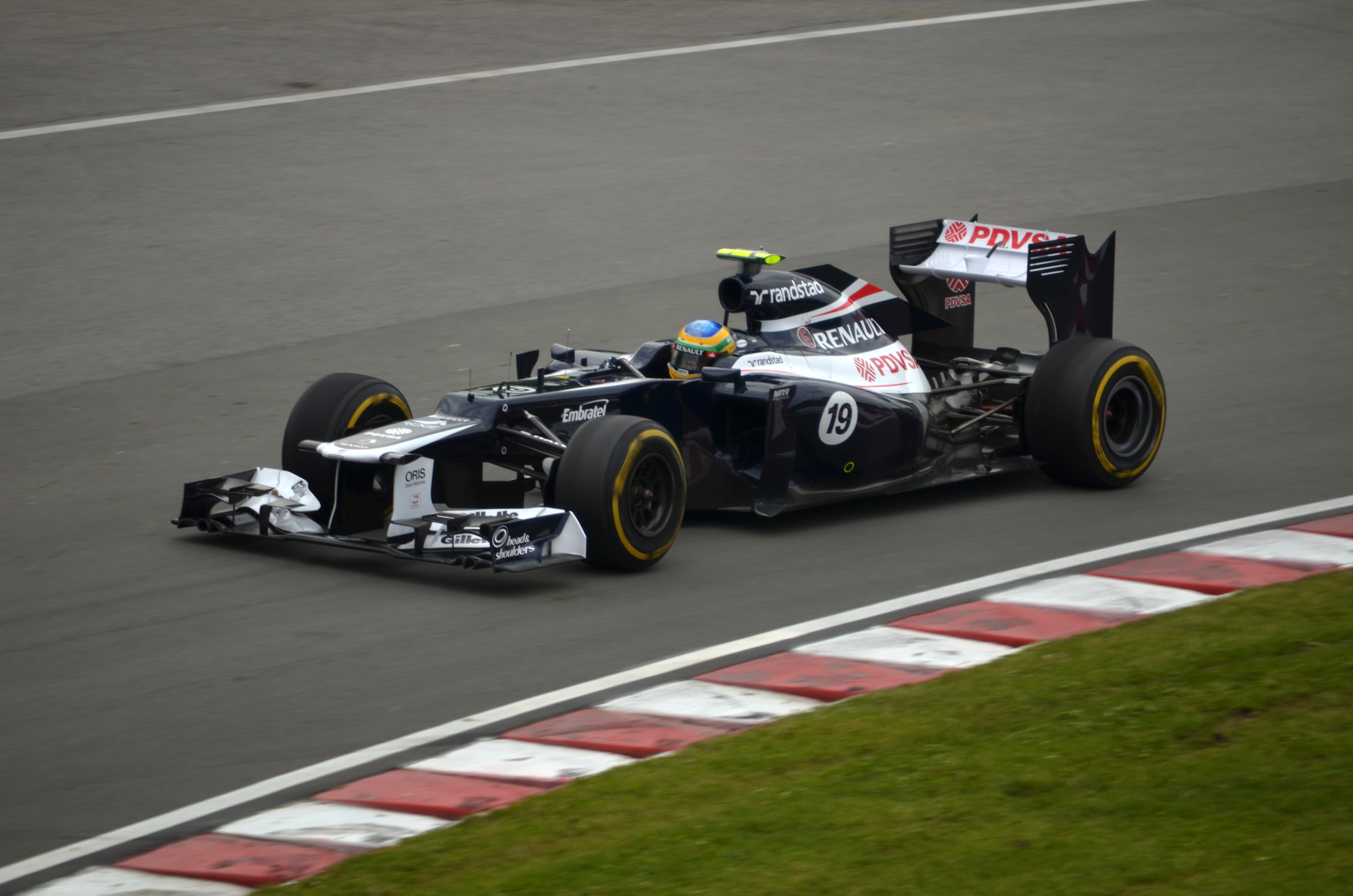 Bruno Senna in the Williams - Renault FW34 exits turn 9 at Circuit Gilles Villeneuve during first practice for the 2012 Canadian Grand Prix